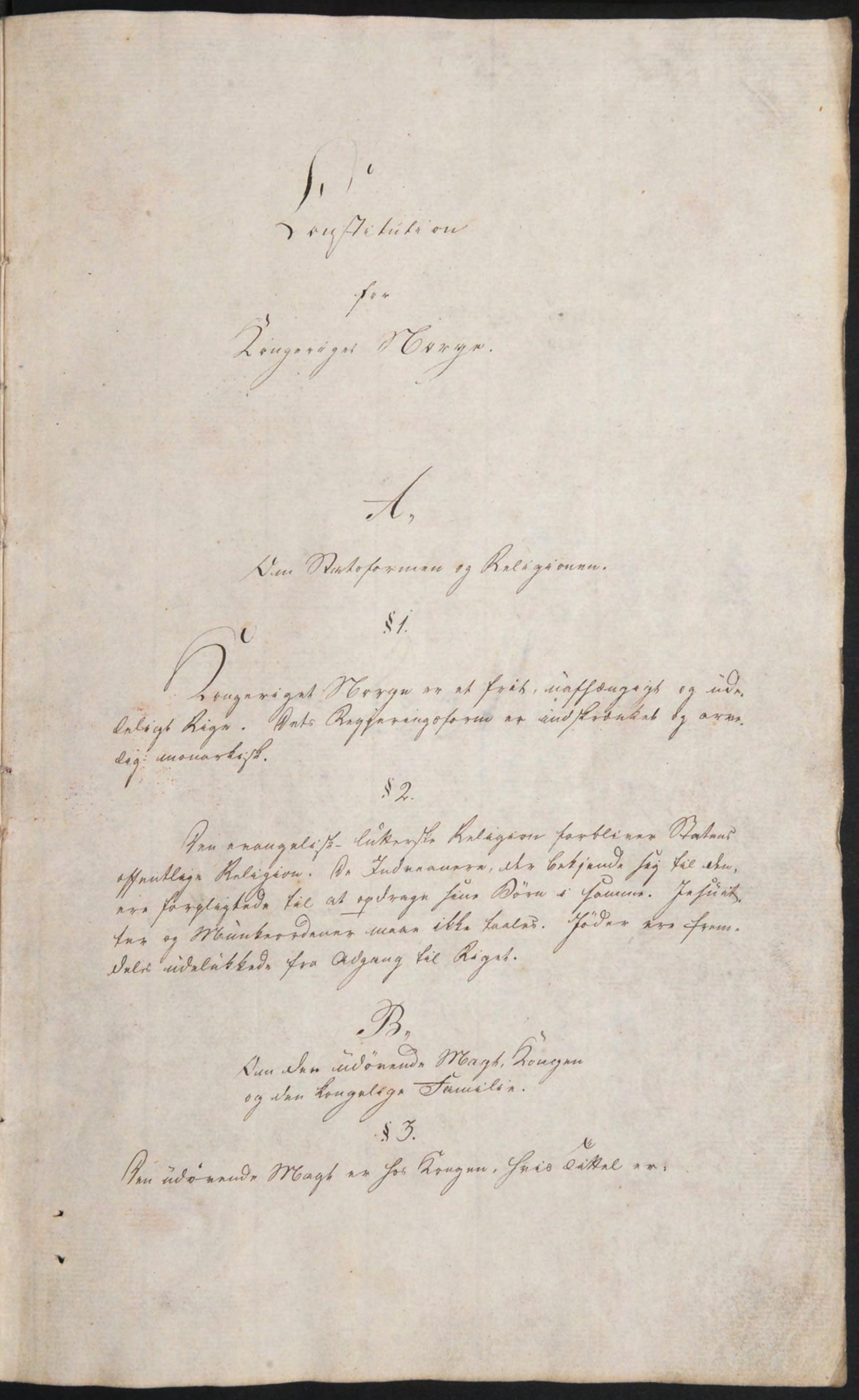 Norwegian Constitution dated 17. mai 1814 page 5